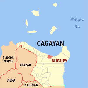 Map of Cagayan showing the location of Buguey